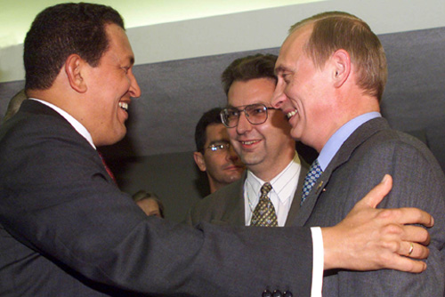 NEW YORK. President Vladimir Putin and Venezuelan President Hugo Chavez.